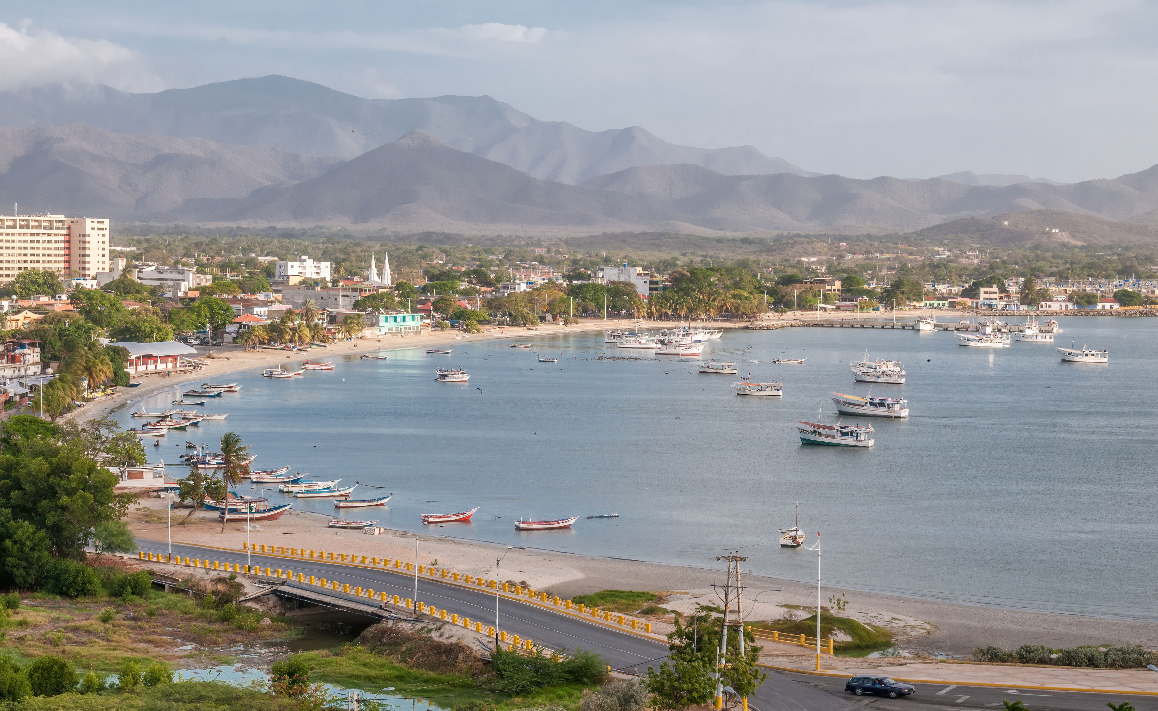 Panoramic view of Juan Griego bay from Fort La Galera. Juan Griego is a city on the northern side of Isla Margarita, and is the most northern port in Venezuela.